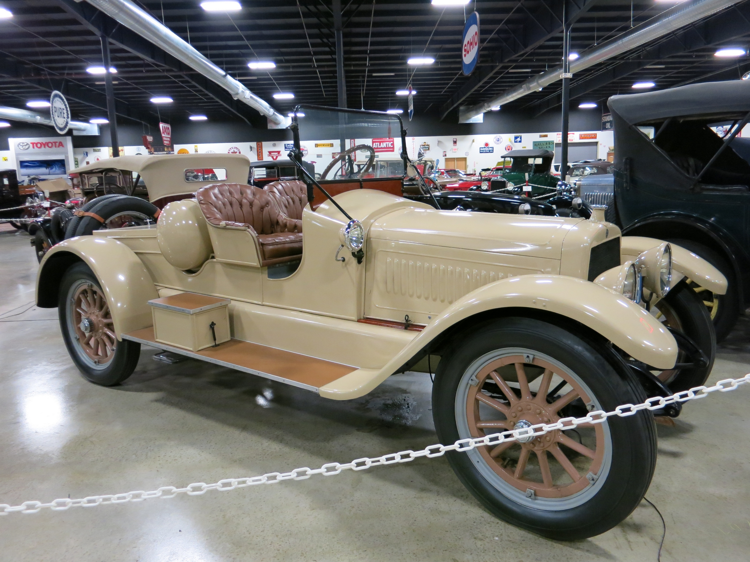 1915 Lozier Tupelo Automobile Museum Tupelo, Mississippi